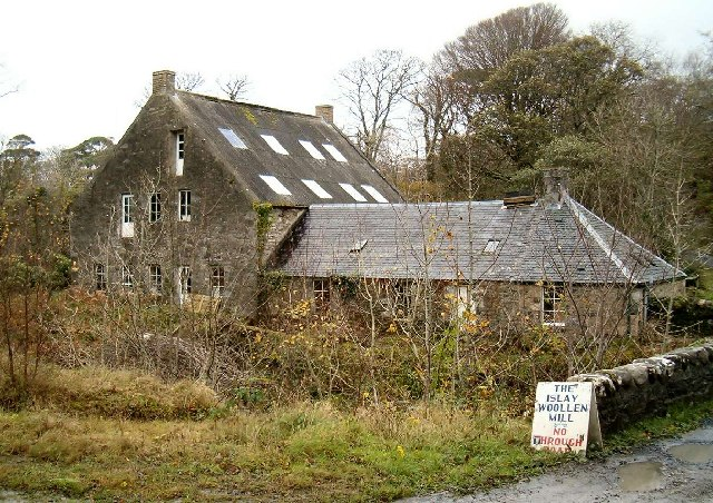 Islay Woollen Mill, Bridgend, Isle of Islay.